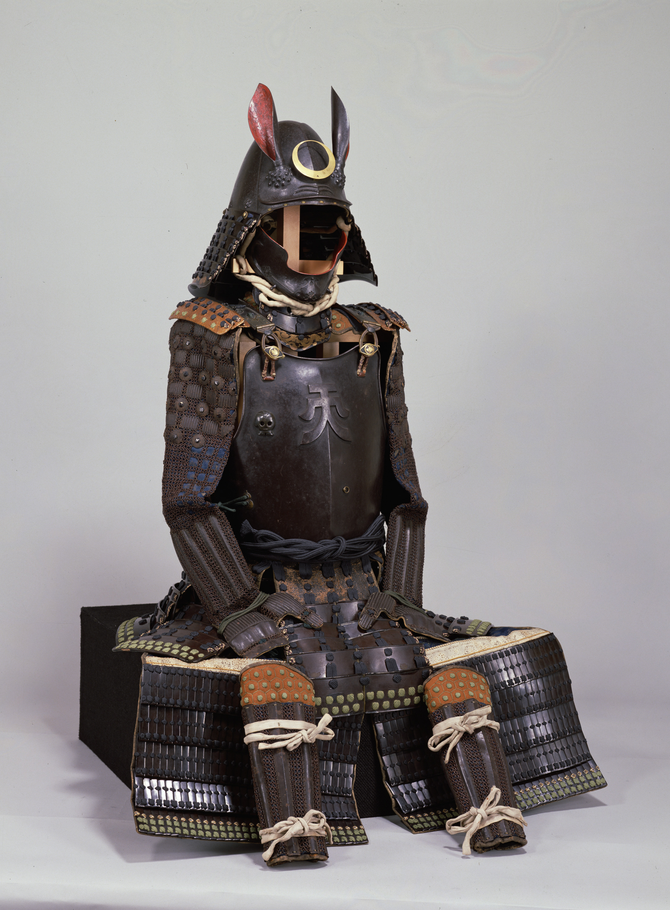 Gusoku Armor European-style cuirass, 16th-17th century, Tokyo National Museum